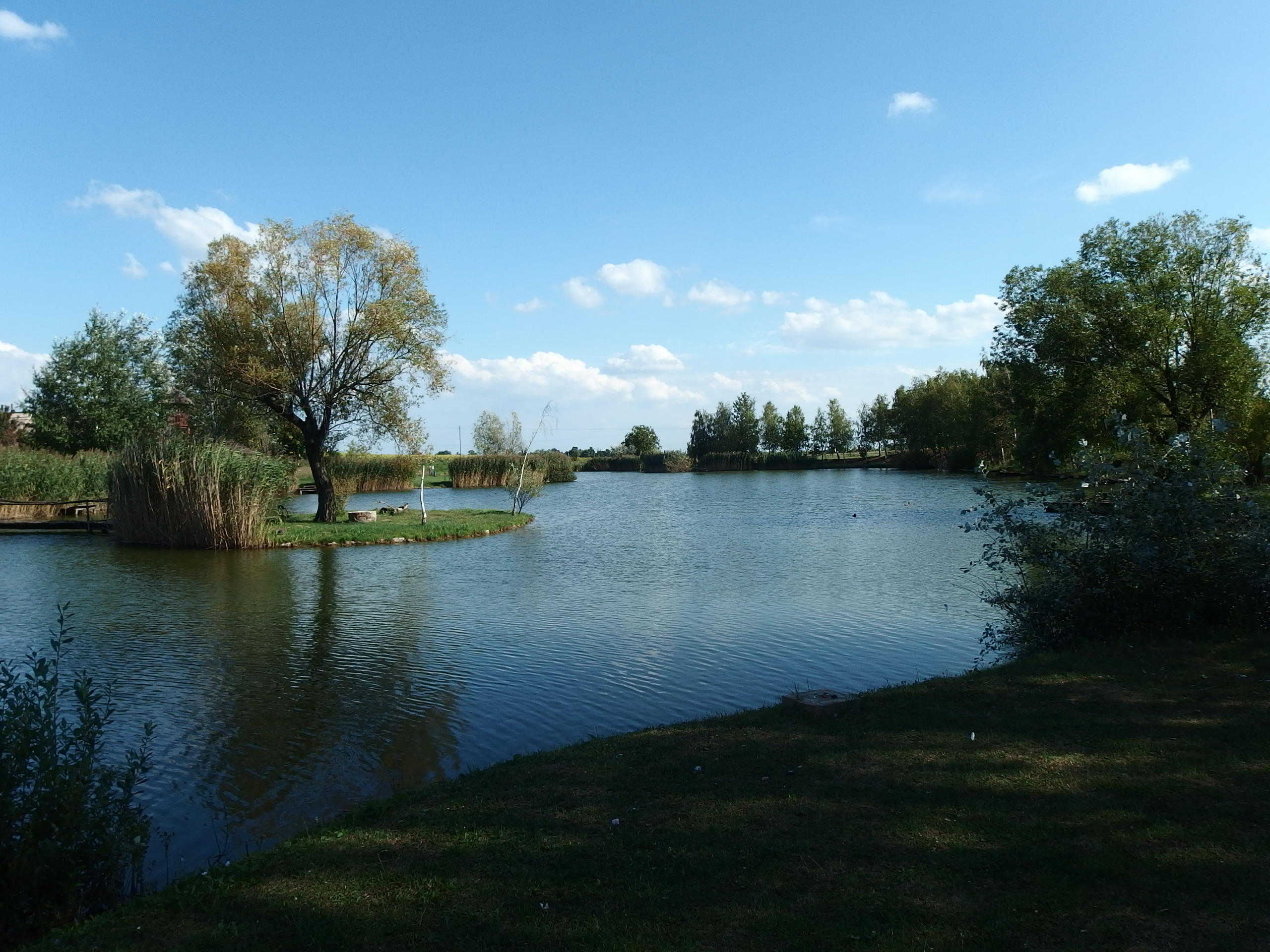 The lake at village Tordas in Hungary